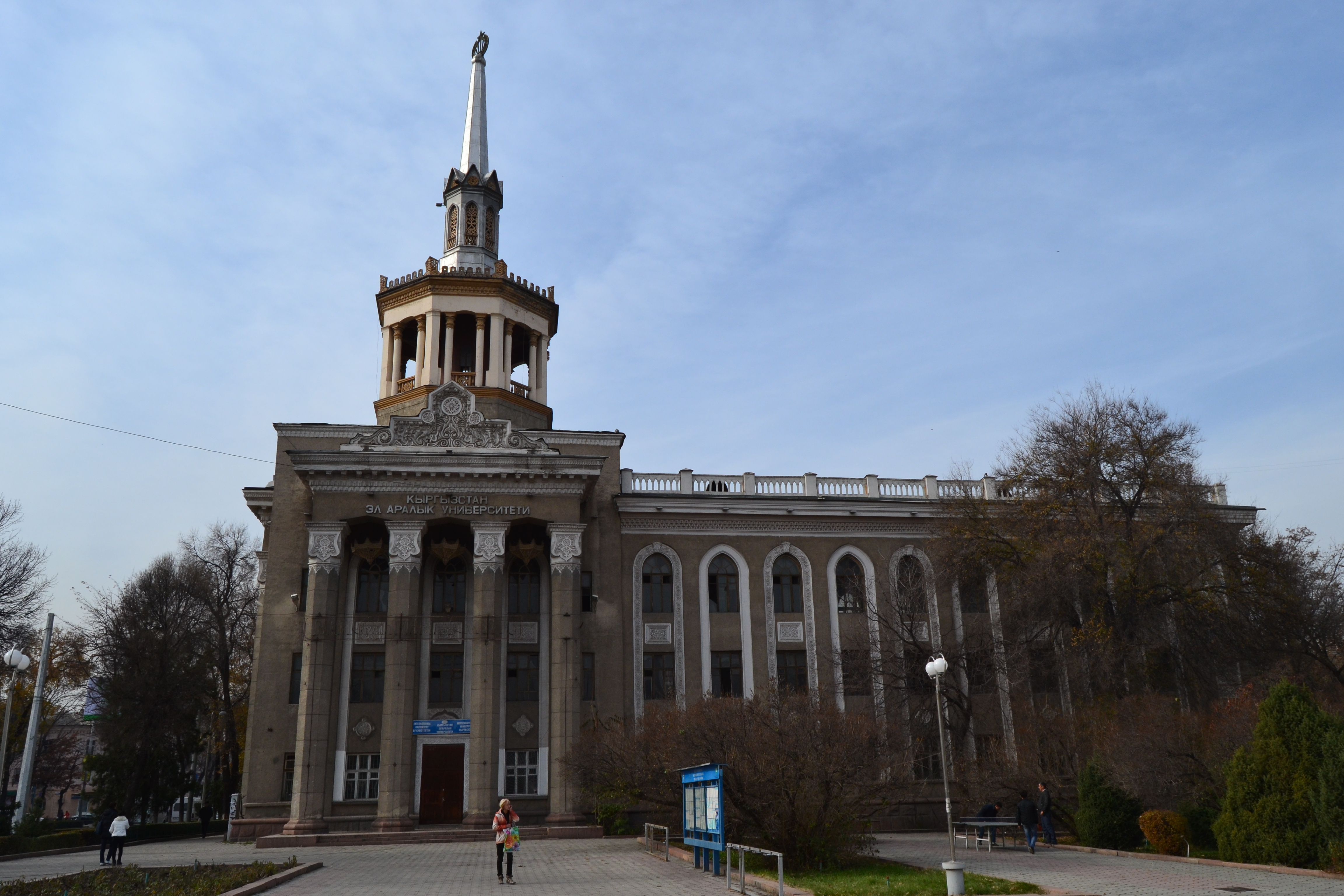 General views of Bishkek © ITU/ A. Mateyev